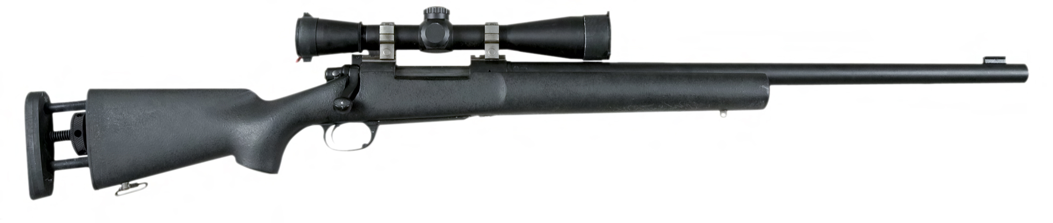 M24 Rifle Primary function: Anti-personnel. Length: 43 in. Weight: 64 lbs. (complete system) Caliber: 7.62 mm. Maximum effective range: 800 meters.